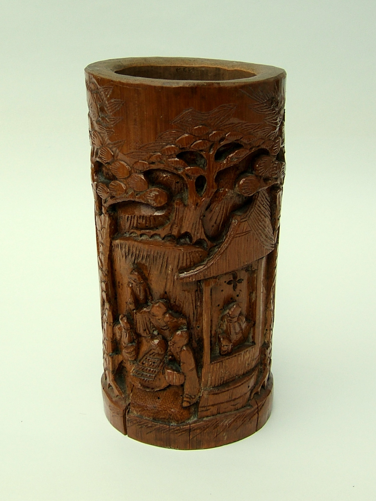 Chinese bamboo carving, Qing Dynasty, c.1900. 20 cm high, 10 cm diameter. Note holes caused by Anobium punctatum or other wood-boring insect.